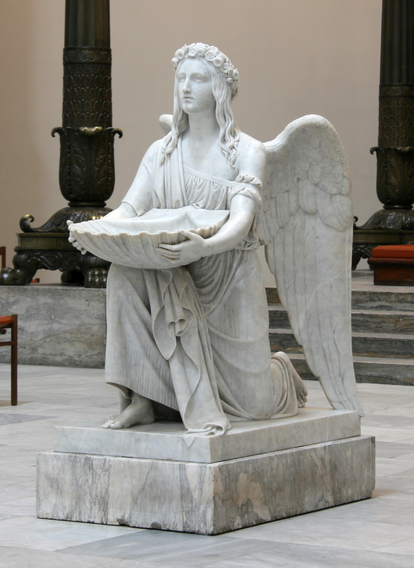 Vor Frue Kirke in Copenhagen, Denmark. The cathedral of Copenhagen. Baptismal font by Thorvaldsen.